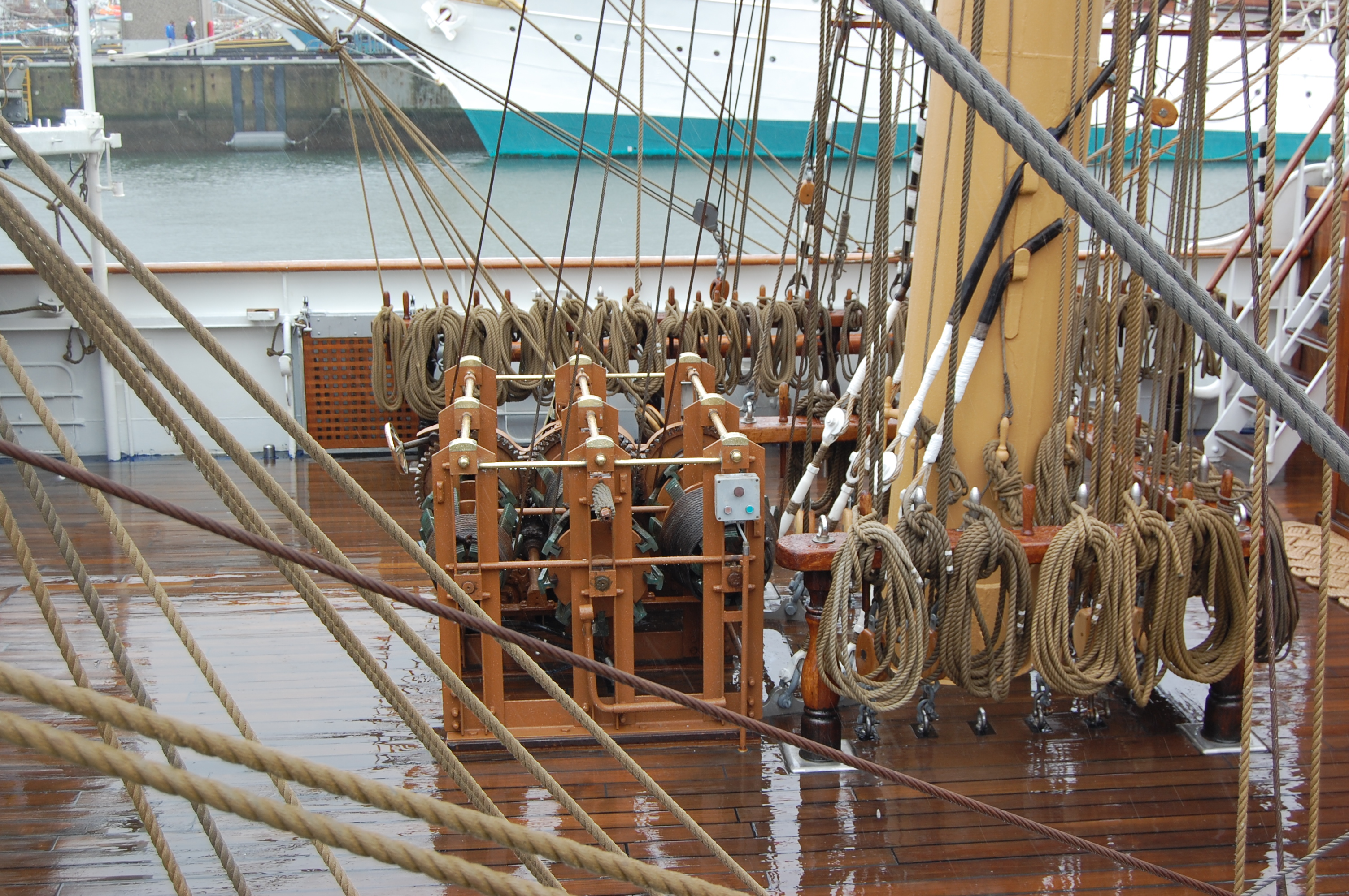 Brazilian ship Cisne Branco on Sail Den Helder June 22, 2013